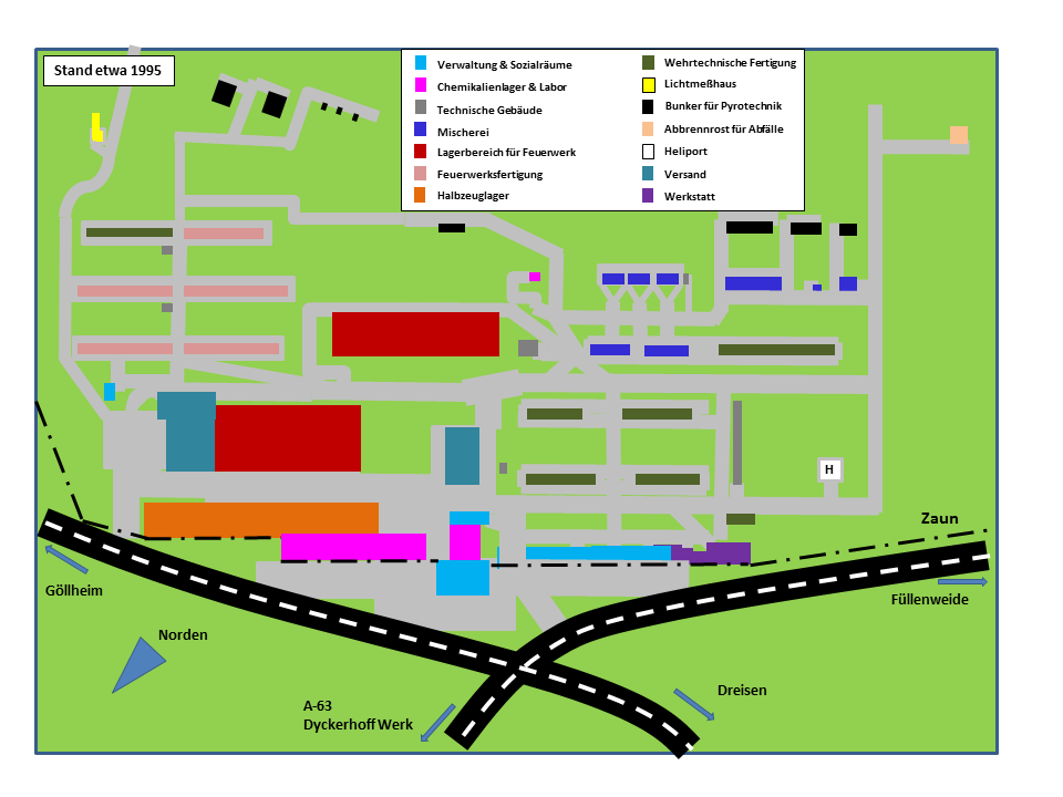 Sketch shows layout of former Piepenbrock Pyrotechnik plant in Göllheim/Palatinate with typical use in the mid 1990s